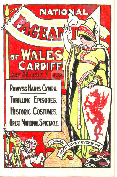 Postcard to advertise the National Pageant of Wales in Cardiff